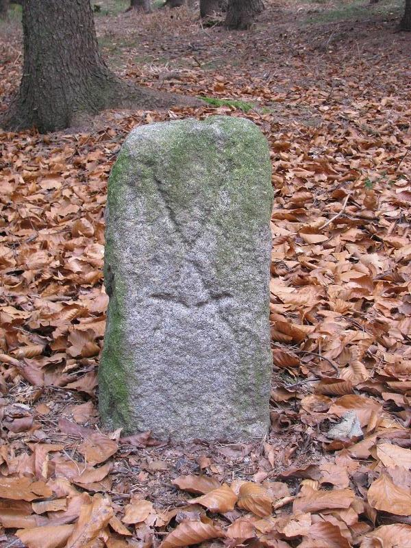 Historical boundary stone of the Mark Meissen at the boarder to the Upper Lusatia